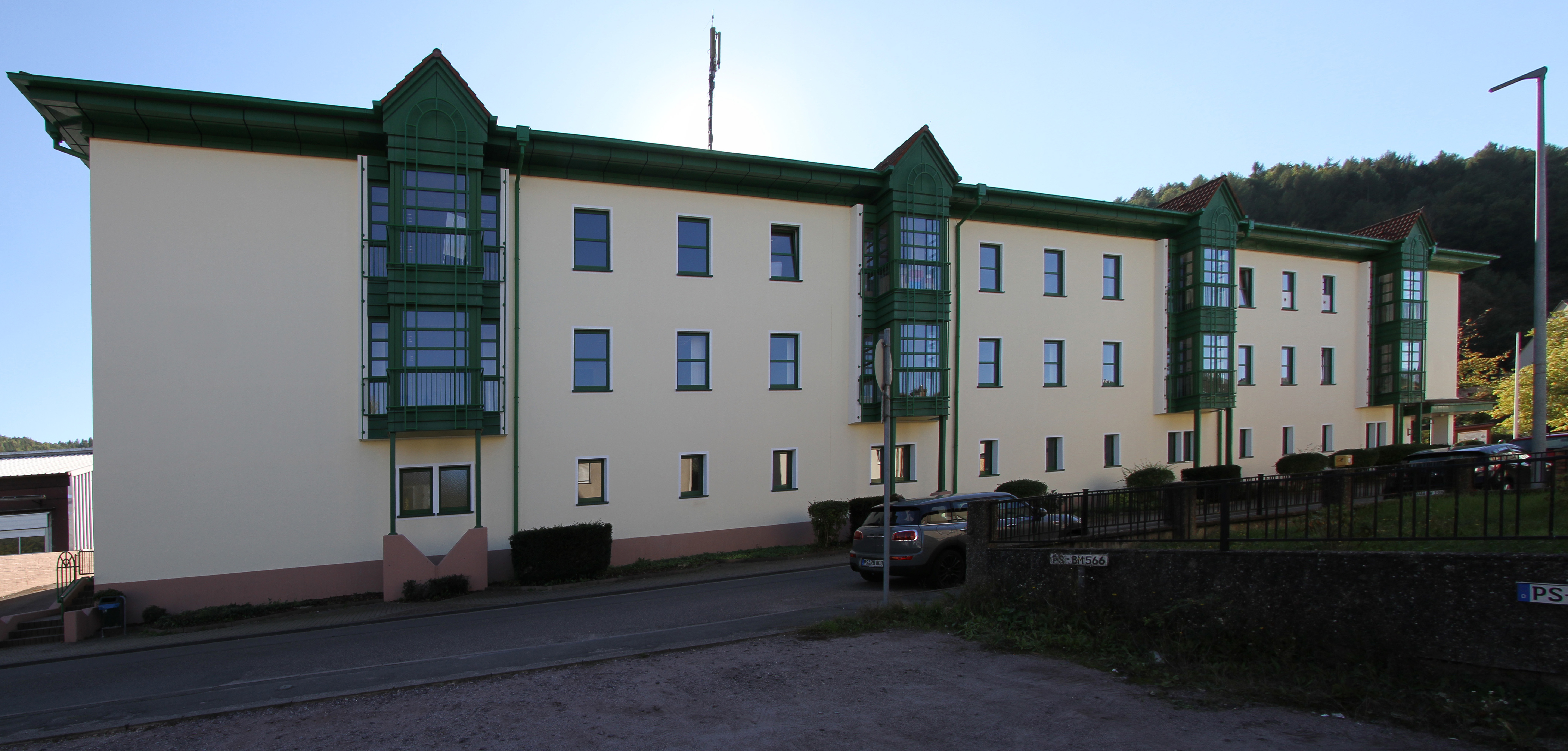 Building of the administration of the Collective municipality Rodalben